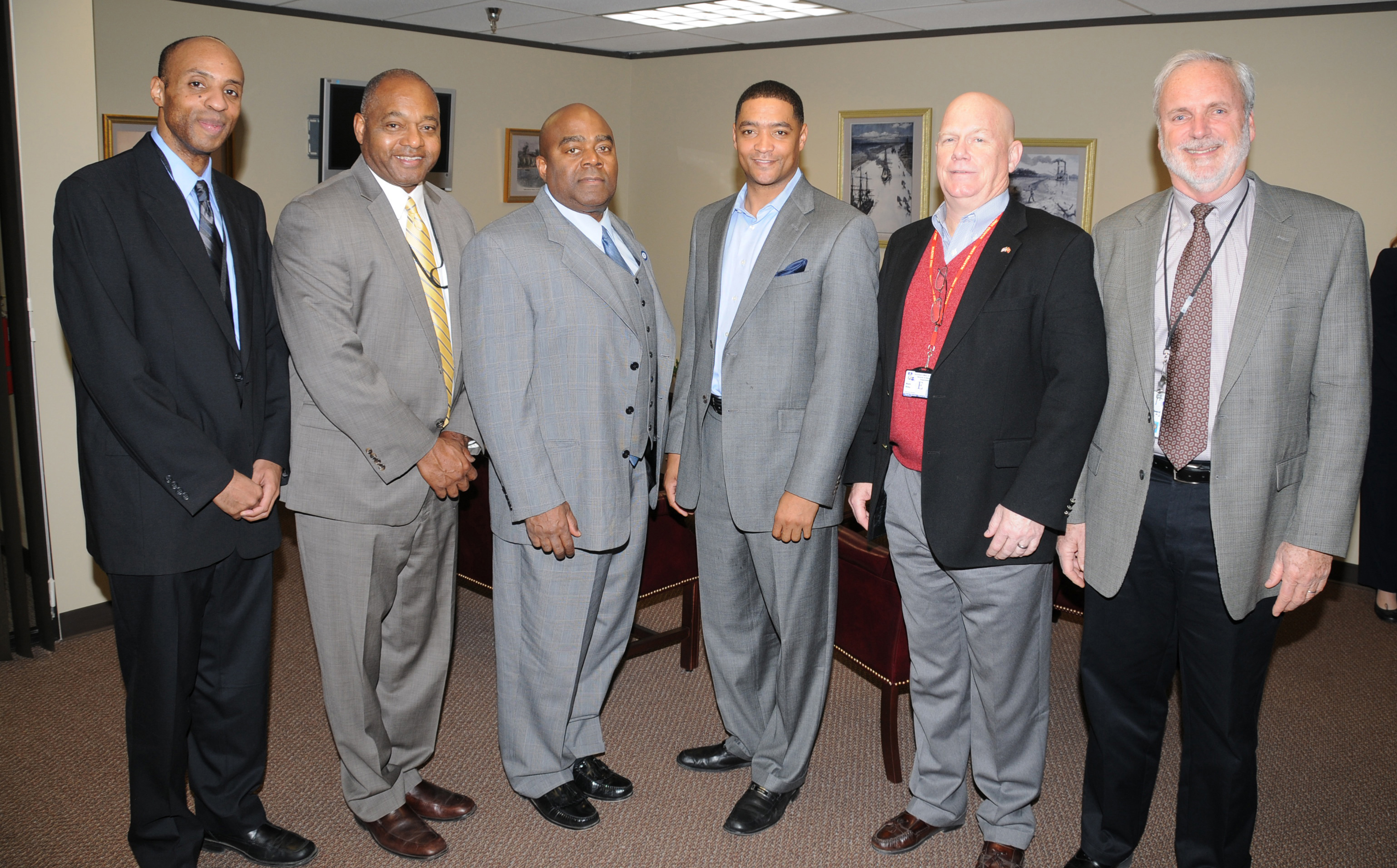 New Orleans, LA, December 20, 2010 -- Senior FEMA leaders (left to right) Louisiana Recovery Office Deputy Director of Programs Andre Cadogan, LRO Acting Executive Director Joe Threat and Region 6 Administrator Tony Russell recently met with Louisiana State Representative Cedric Richmond, Governor's Office of Homeland Security and Emergency Preparedness Deputy Director Mark Riley and GOHSEP Assistant Deputy Director for Disaster Recovery Mark DeBosier. Richmond, who will soon take office as a U.S. Congressman, took the opportunity to become familiar with current Hurricane Katrina recovery work and future plans for Orleans and Jefferson parishes. Manuel Broussard/FEMA